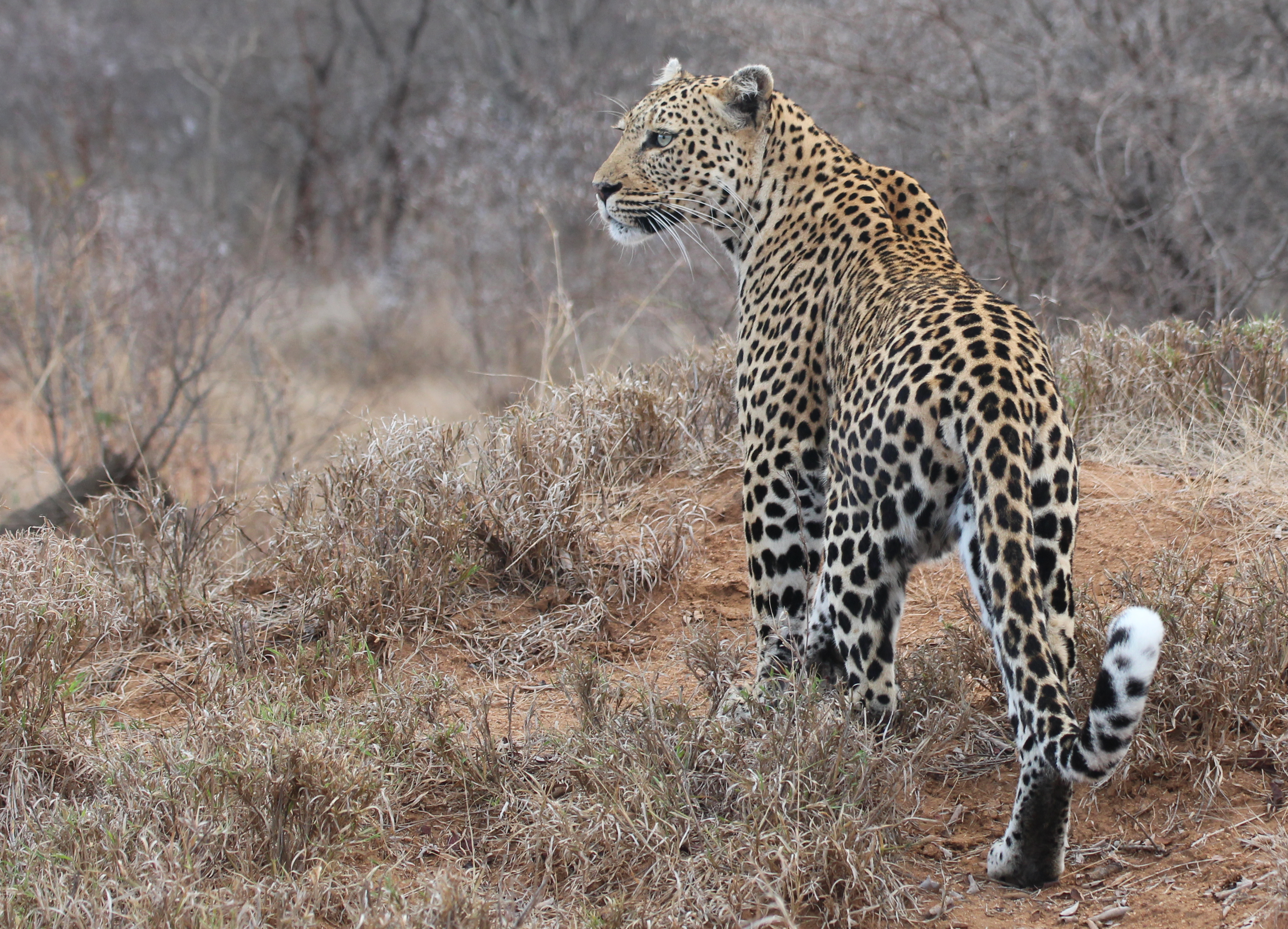 leopard in south africa